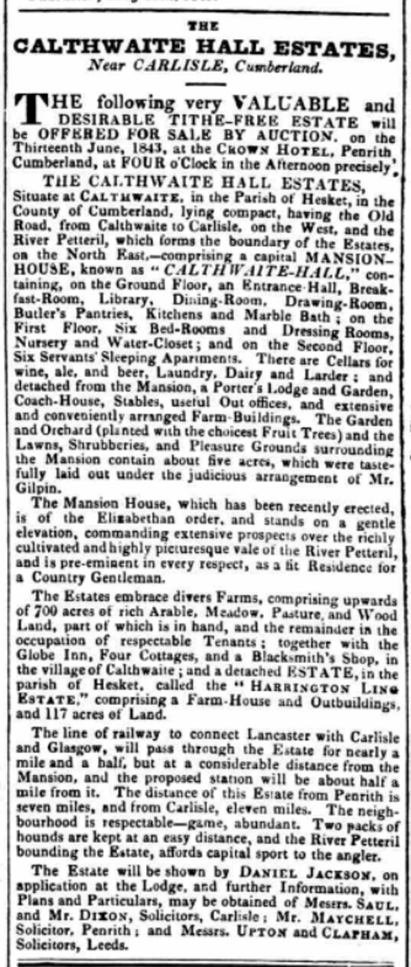 Sale notice for Calthwaite Hall, Penrith, Cumbria.